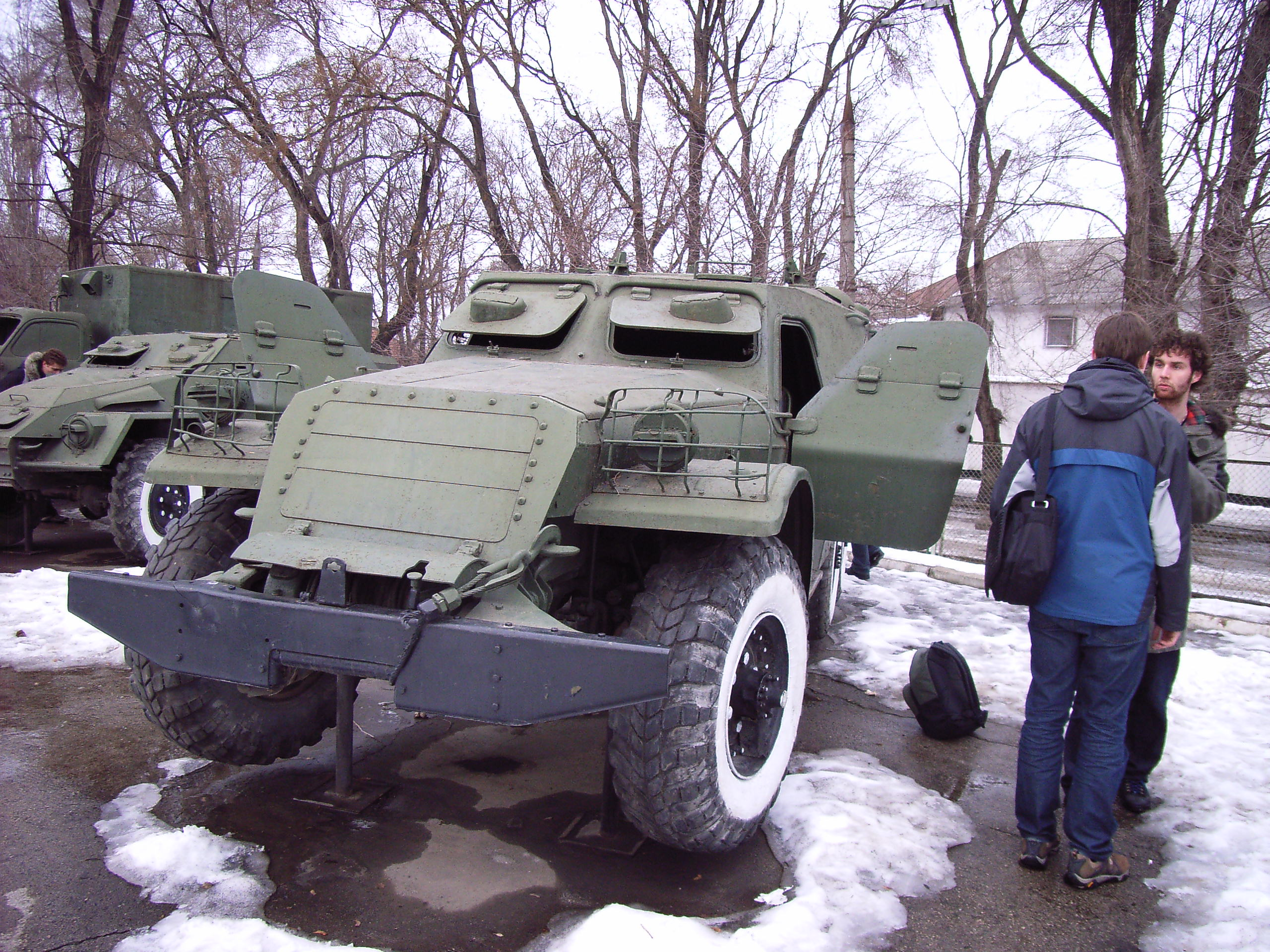 BTR-152 in a museum in Chisinau, Moldova.